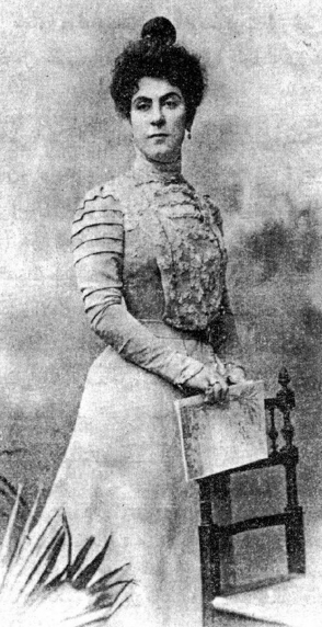 Alexandra Avierino (Khoury), probably in egypt, 1900s